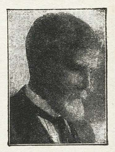 T, O'Conor Sloane, in an advertisement for his then-employer, Chemical Institute of America